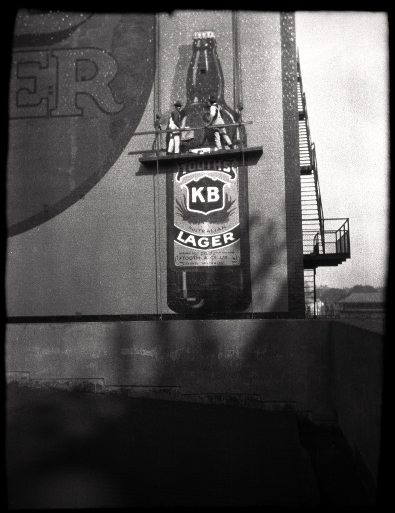 Part Of: Powerhouse Museum Collection General information about the Powerhouse Museum Collection is available at Persistent URL